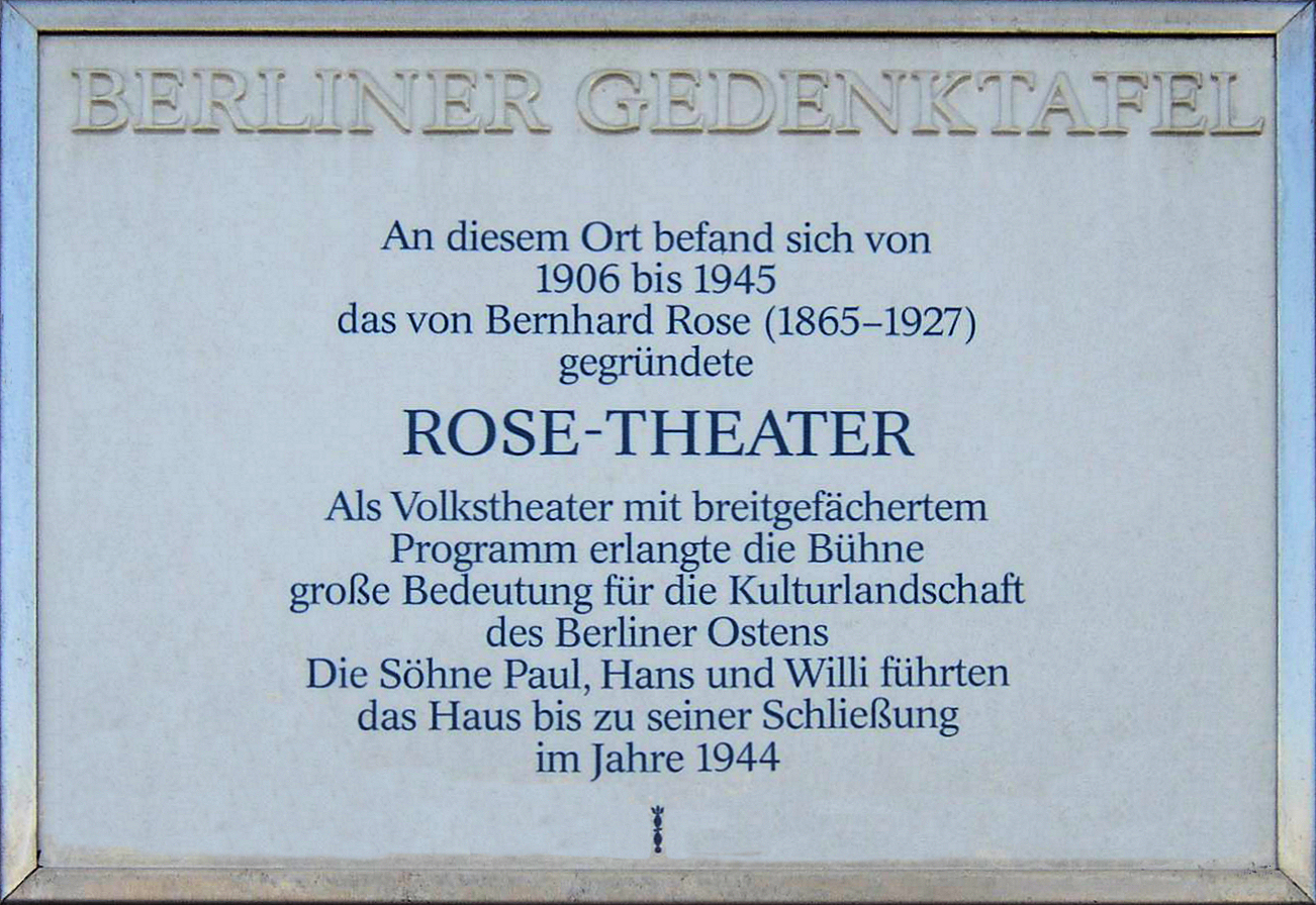 Berlin memorial plaque, Rose Theater, Karl-Marx-Allee 78, Berlin-Friedrichshain, Germany